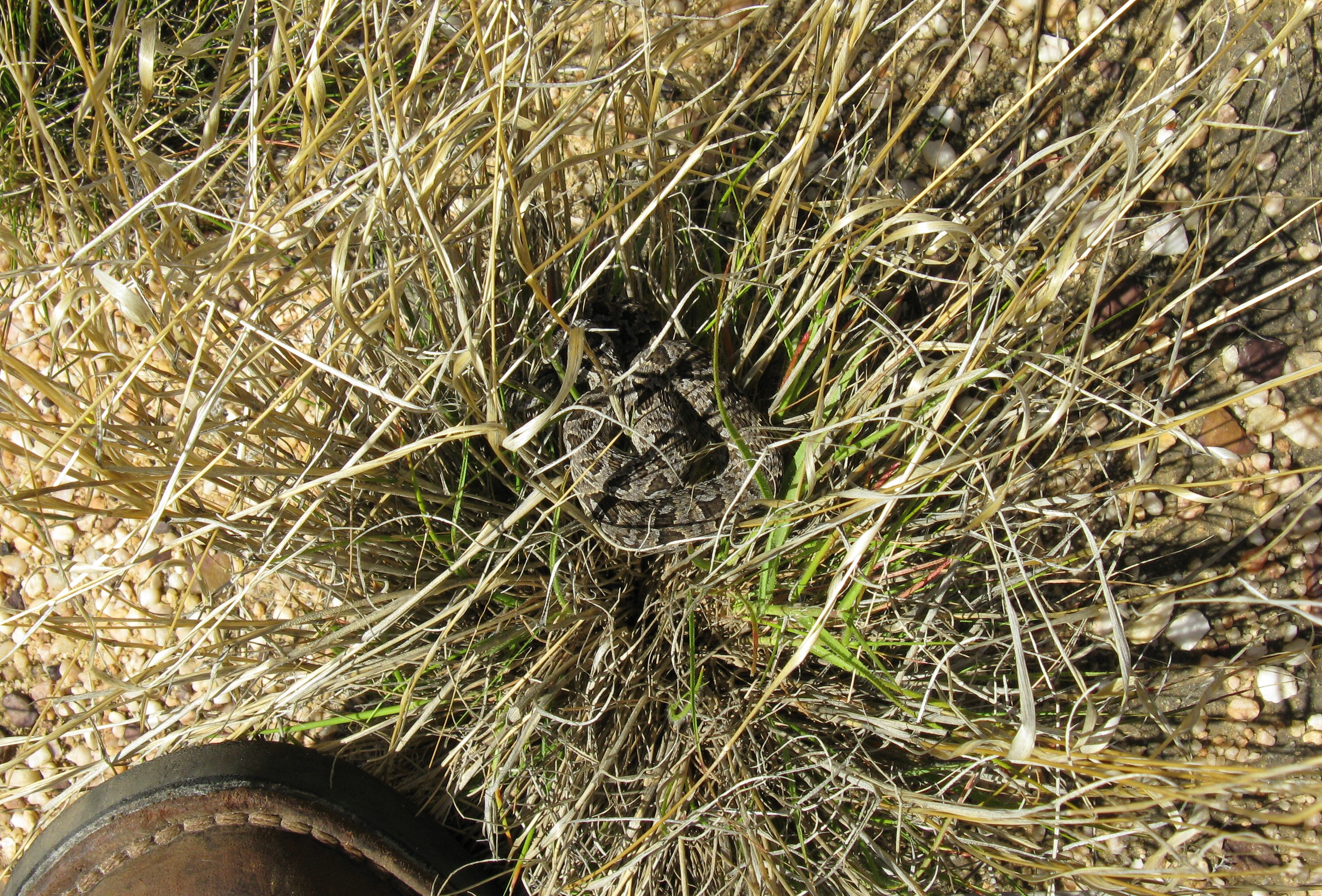 This was a little specimen, somewhere between 15 and 30 cm long. The pattern and coloration is typical of the specimens in the Cedarberg. The toe of the photographer's boot may help with scaling